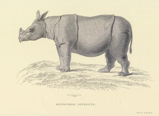 Javan rhinoceros. From Thomas Horsfield, Zoological researches in Java, and the neighbouring islands. Printed by Kingsbury, Parbury, & Allen, 1824.